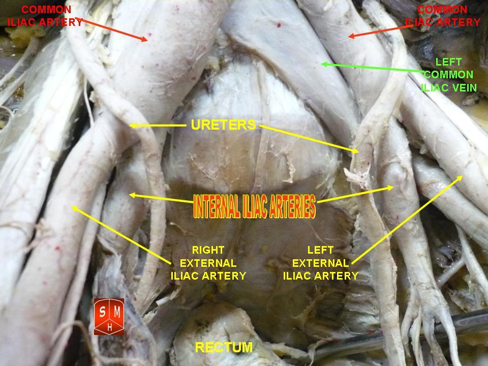 Anatomical preparations